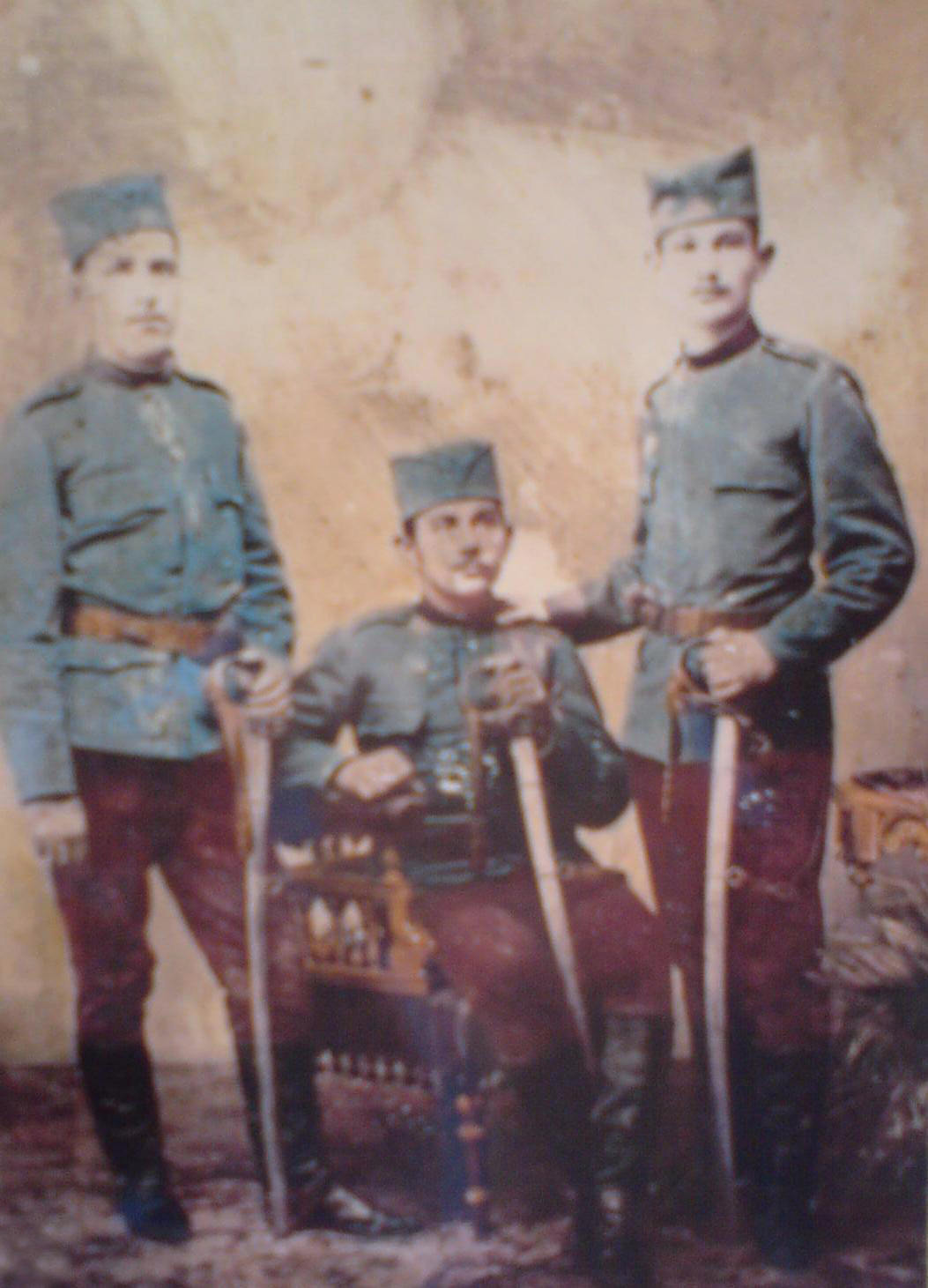 Serbian soldiers from 1901.